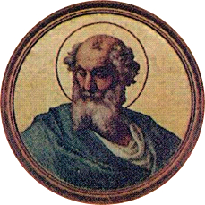 Pope Deusdedit I